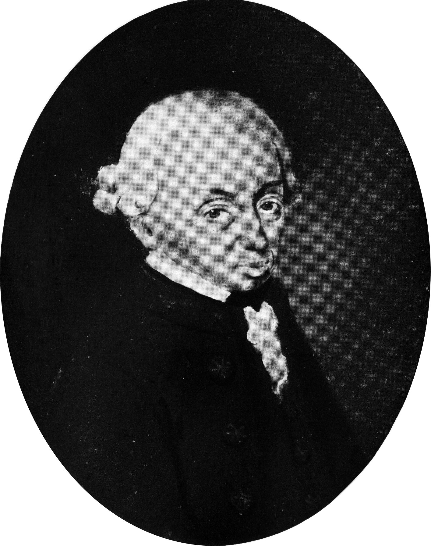 Immanuel Kant (1724–1804); 11:9 cm